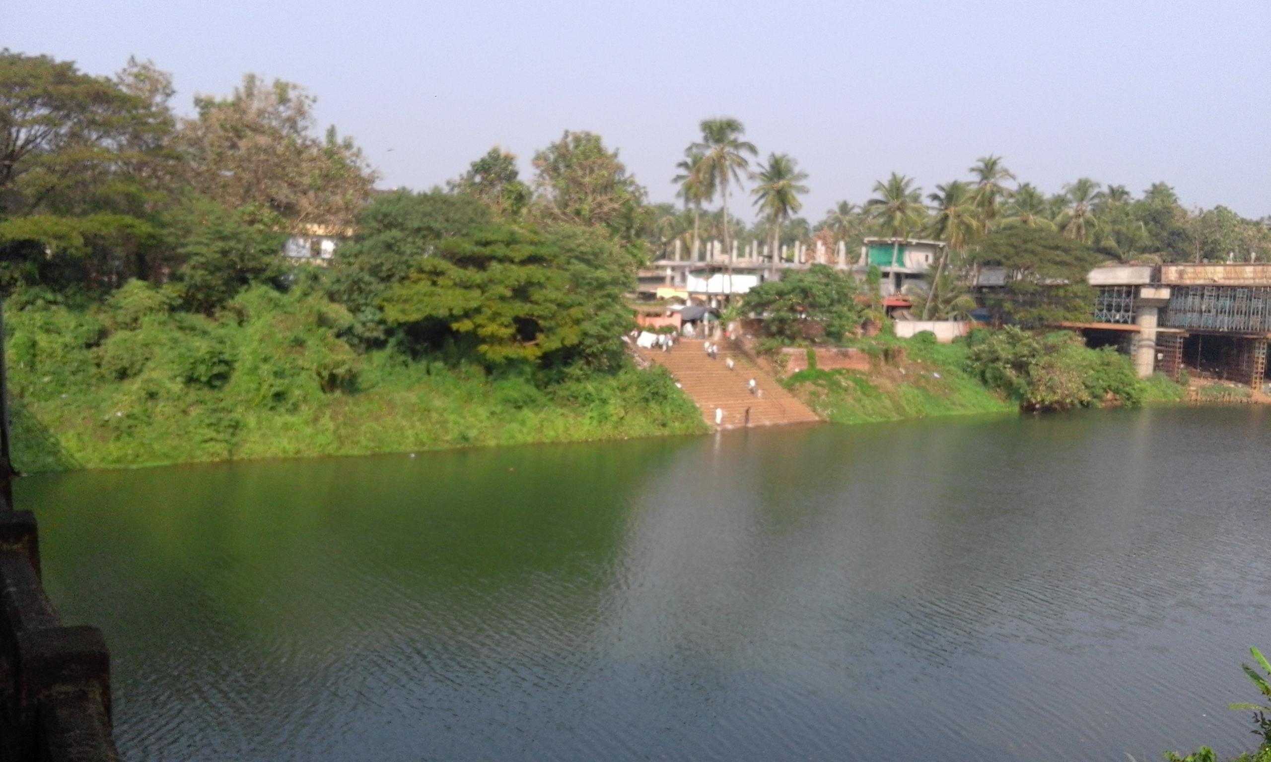 Tirurangadi, Malappuram District Kerala, India